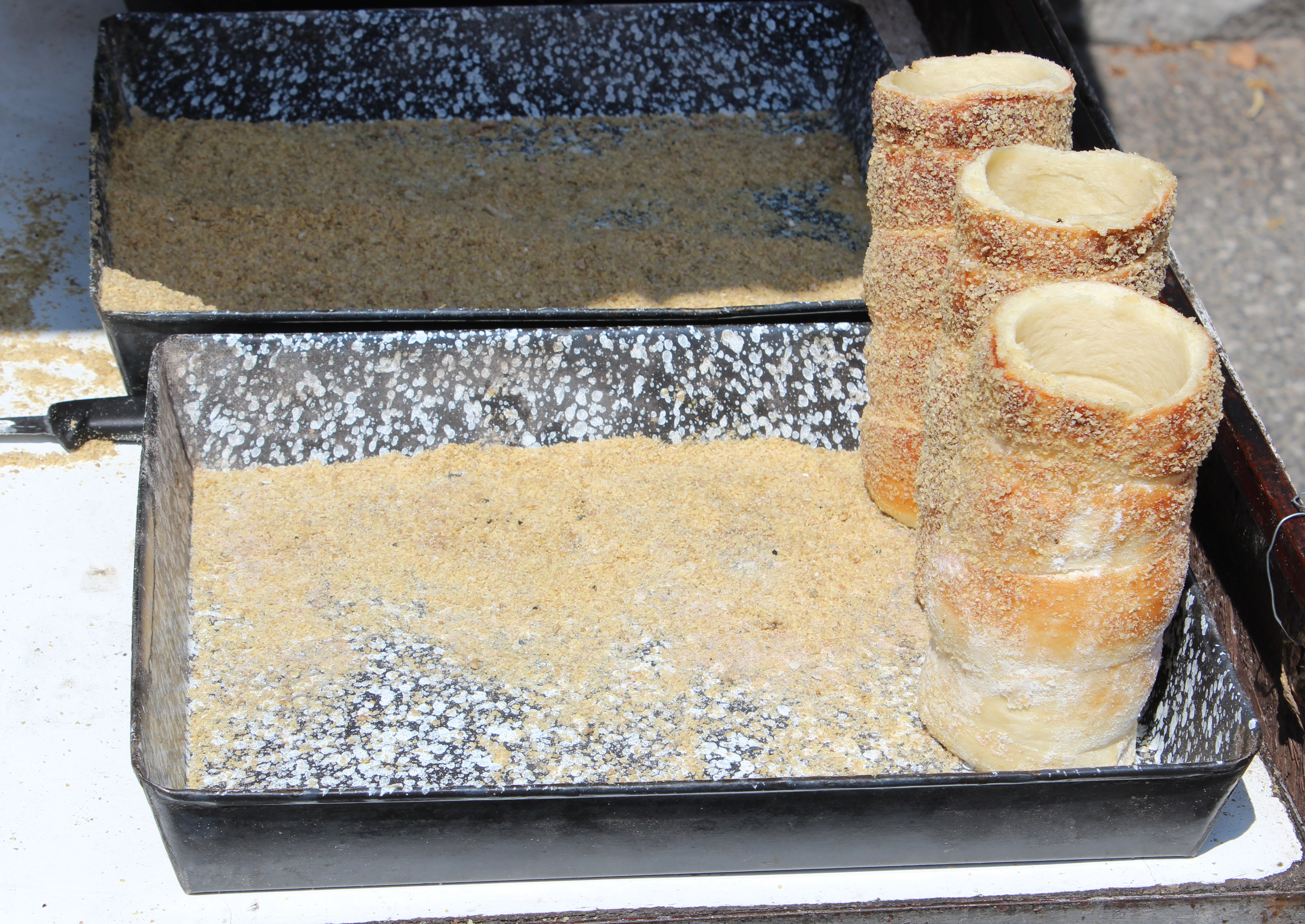 Levoča, Slovakia This photograph was taken with a DSLR from WMCZ's Camera grant.